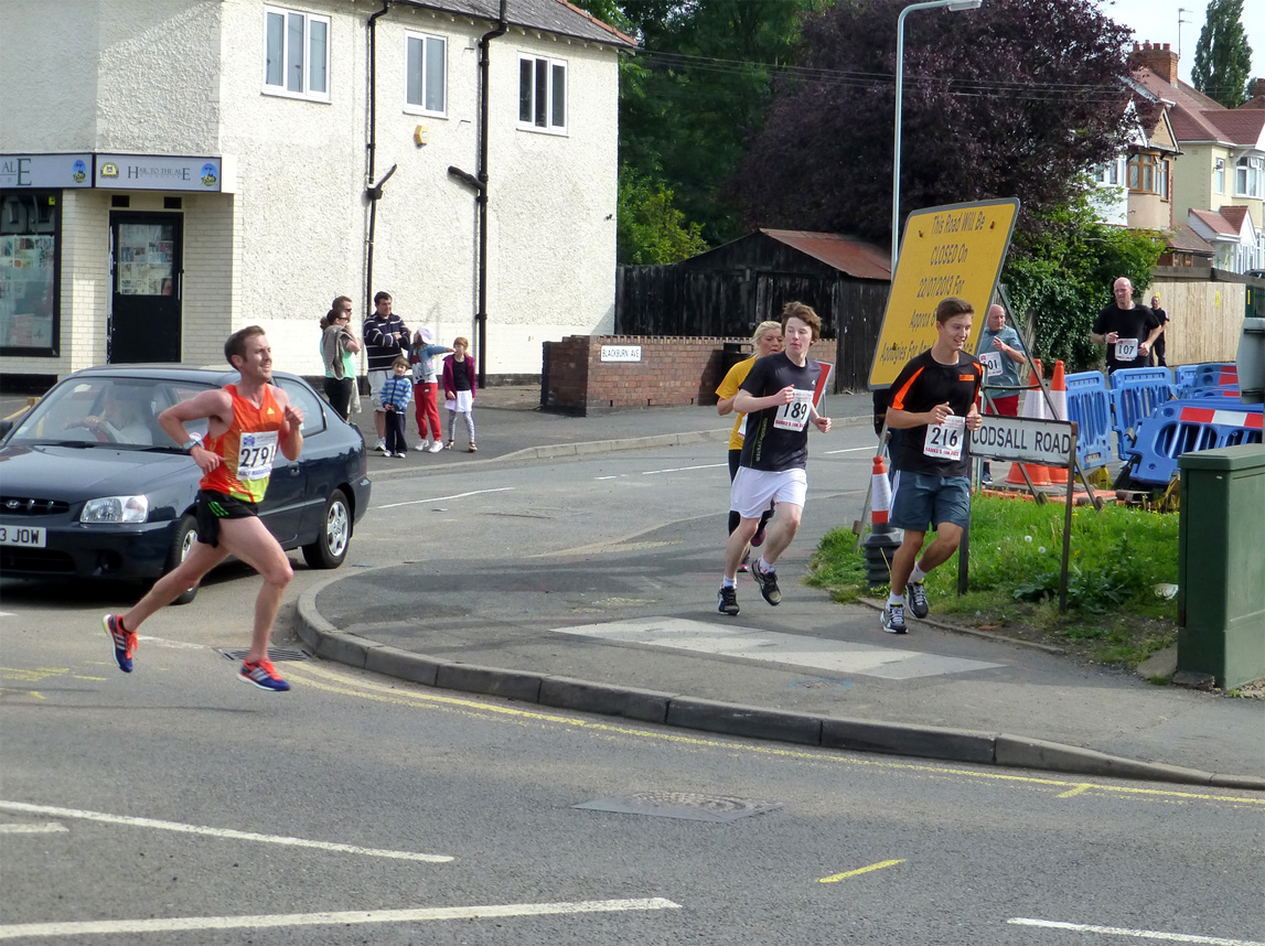 The leader of the half marathon on Codsall Road, Claregate, about to pass runners on the Banks's 10k turning out of Blackburn Avenue.